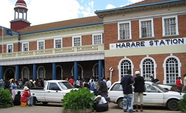 Harare Central station